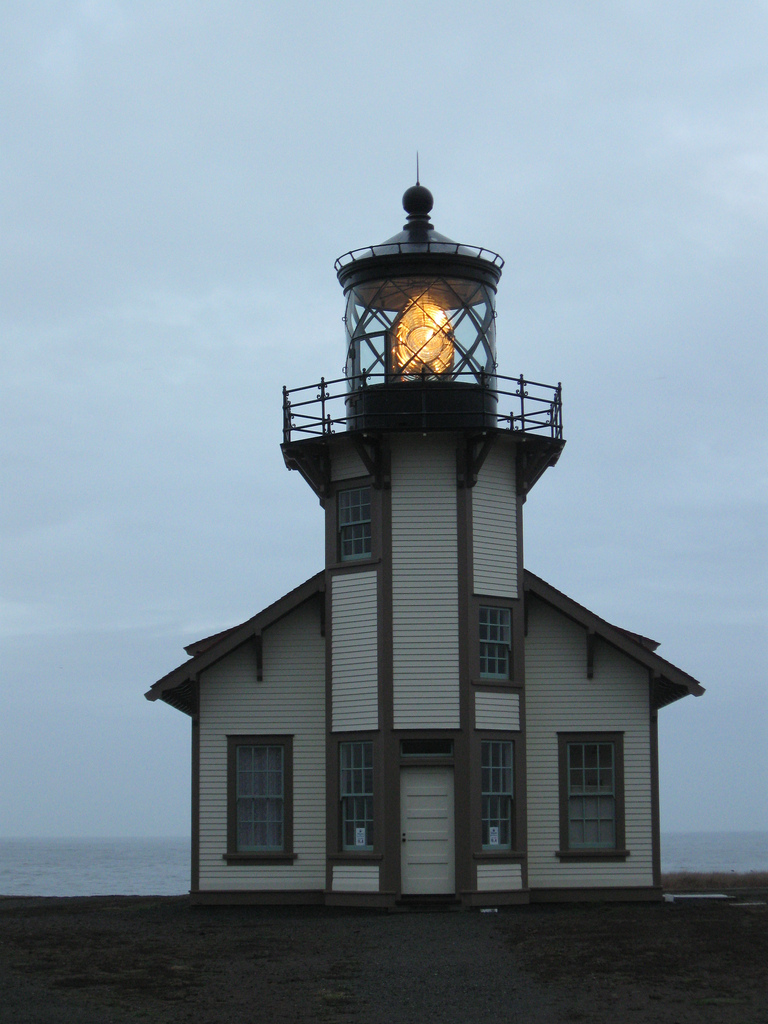 Point Cabrillo Light in Caspar, California, USA.